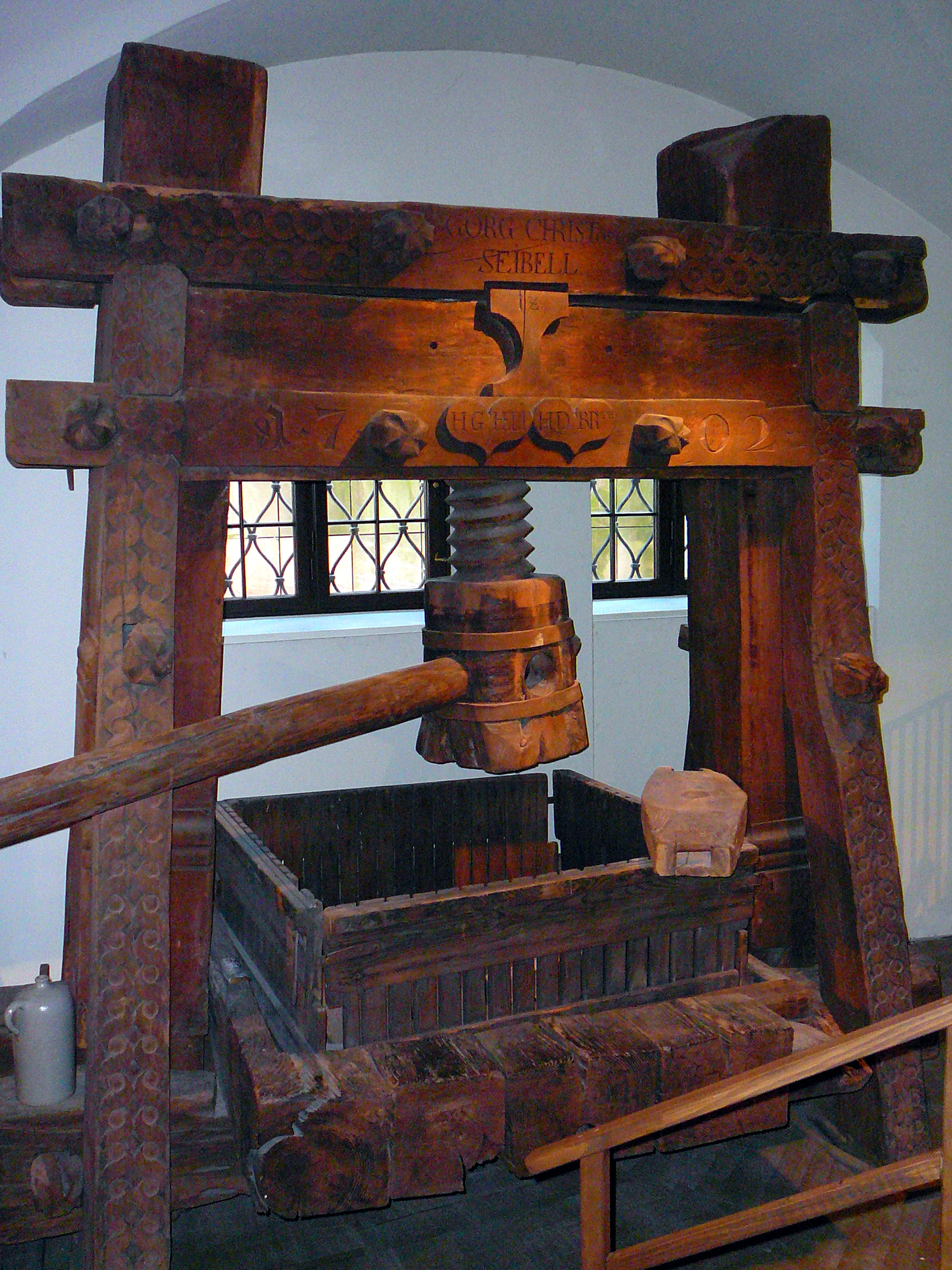 Wooden wine press dated to 1702 from Rhodt unter Rietburg, Palatinate, Germany. The press is constructed with oak, pine and apple tree wood. On display at Historisches Museum der Pfalz, Speyer, Rhineland-Palatinate